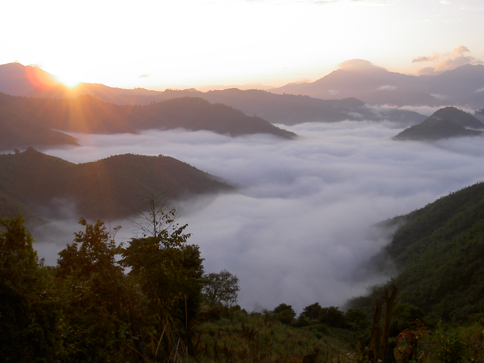 A Sea of Clouds in the mountains of Oudomxay Province in Northern Laos